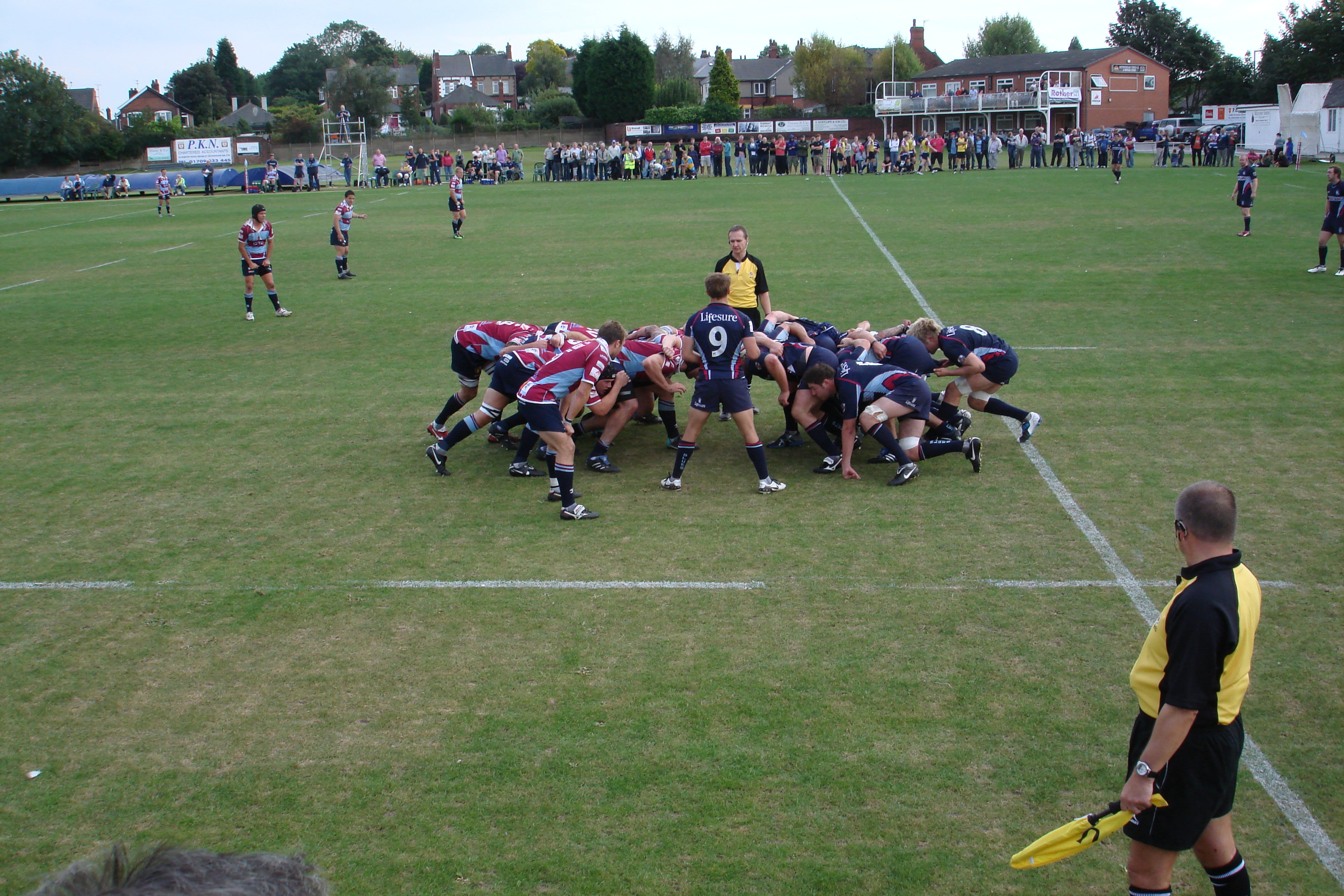 Rotherham v Bedford, near to Rotherham, Great Britain.